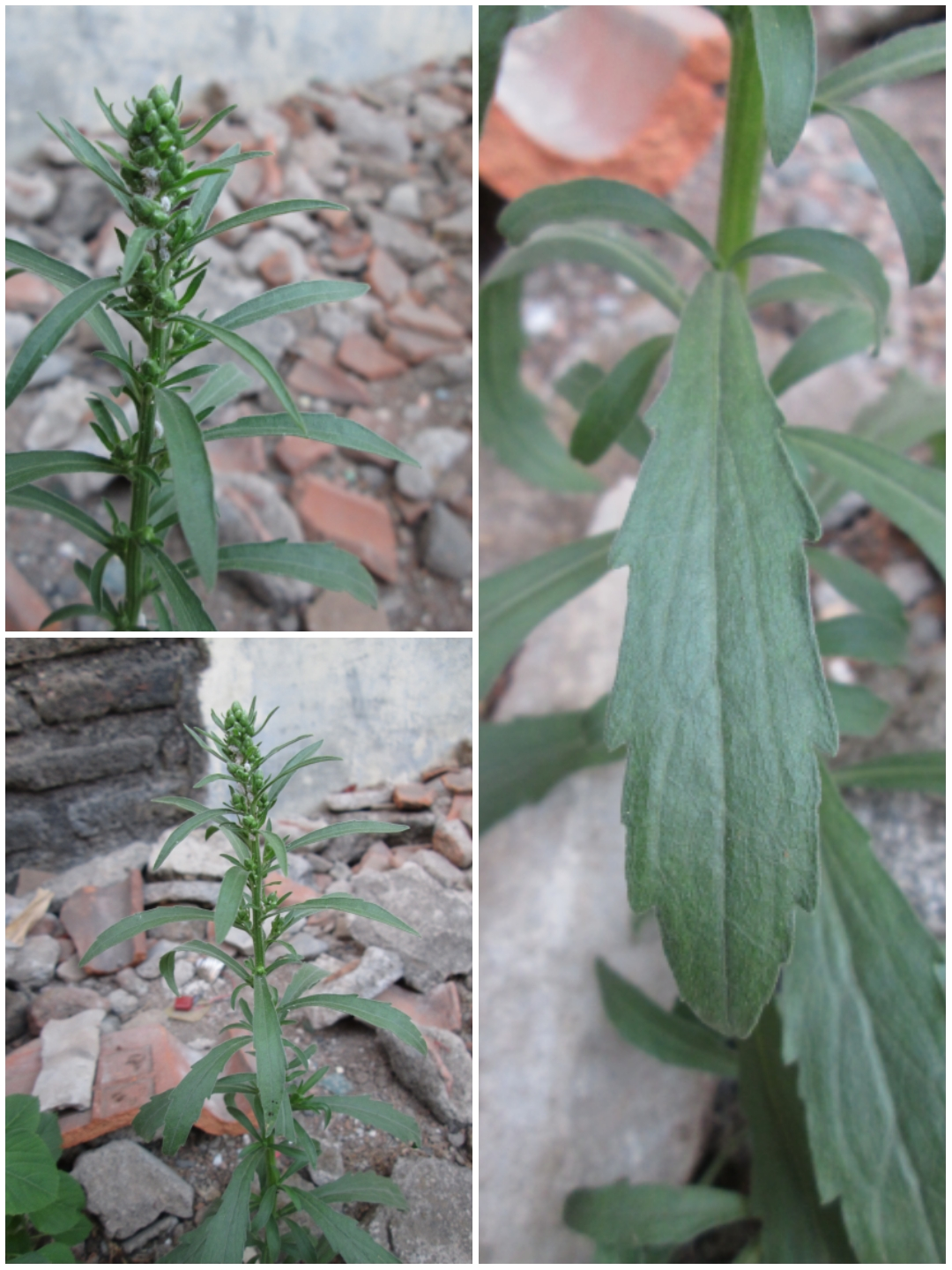 conyza sumatrensis collage